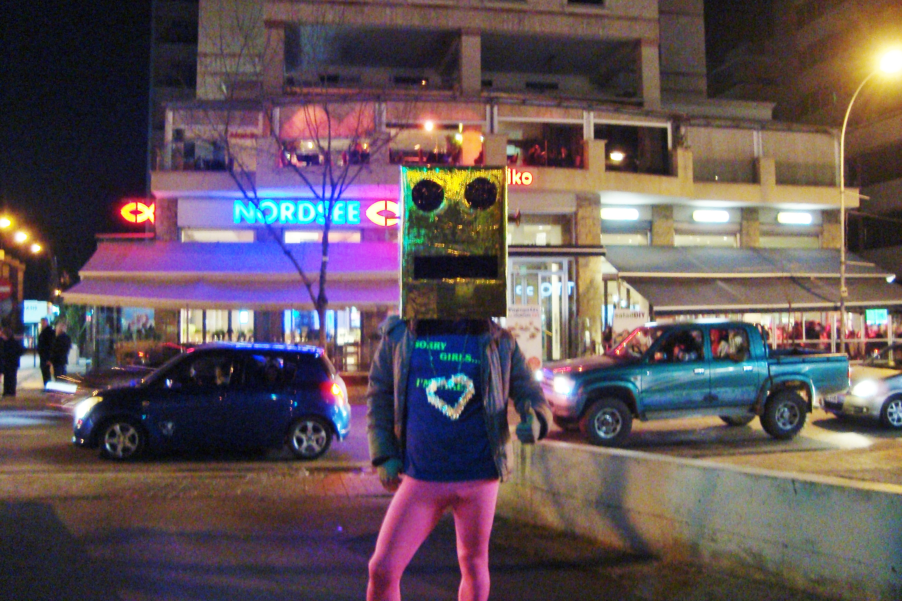 Party rock anthem in carnival festival in downtown Nicosia